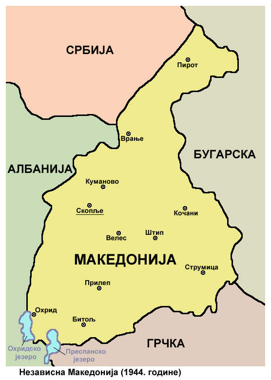 Independent Macedonia (in 1944).